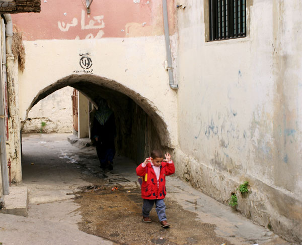 Child returning from school in 2003 in Tyre LebanonBack from school